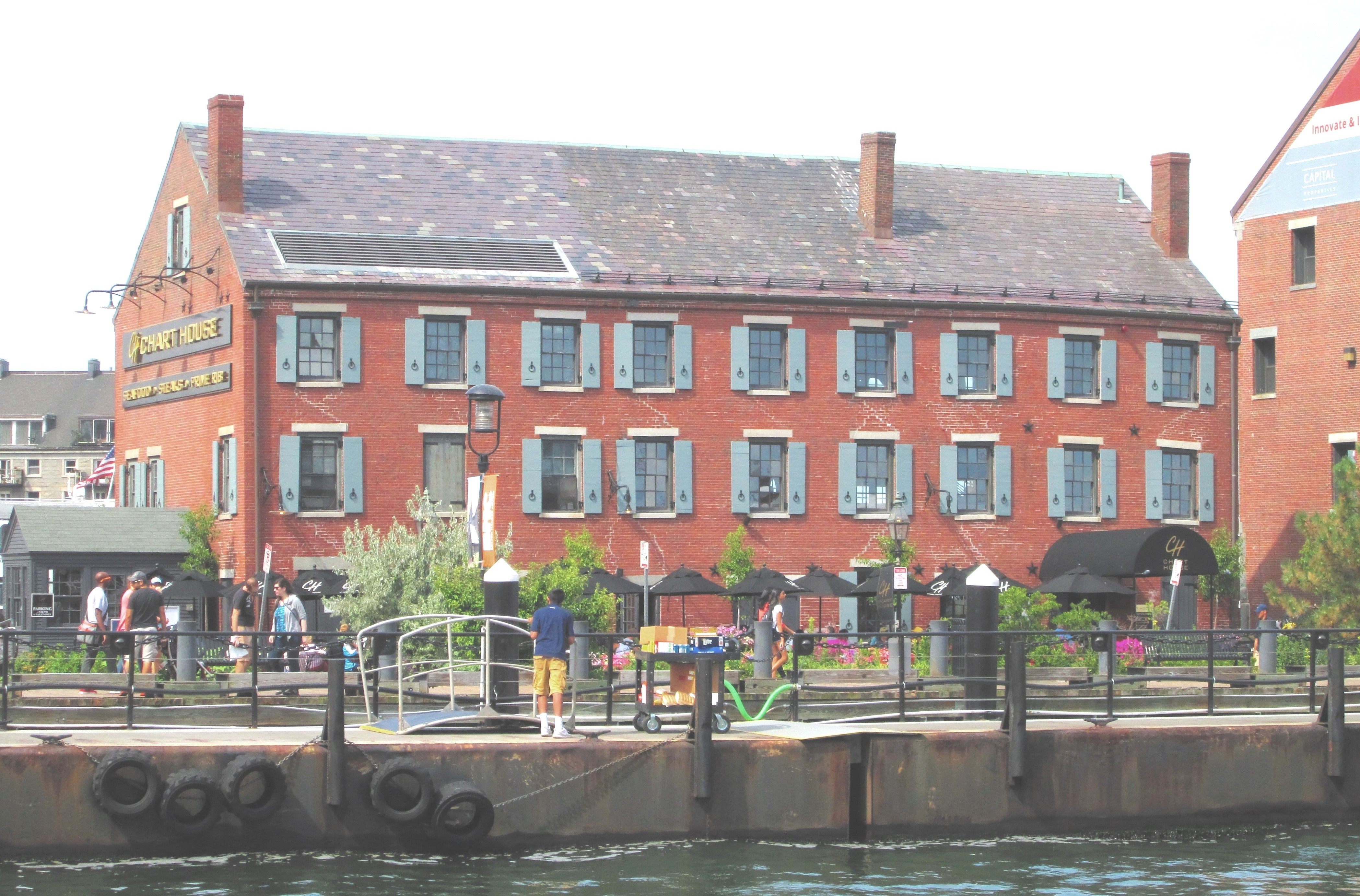 The Gardiner Building, located on the Long Wharf in Boston, Massachusetts, is a brick Colonial style warehouse built in 1763 and rebuilt in 1812. At one time it was used as John Hancock's counting house. Long Wharf was once filled with this kind of building, but this is the only one remaining; it is the wharf's oldest surviving structure. The building was renovated in 1973 by Anderson, Notter, Feingold. It is currently a Chart House seafood restaurant. The Gardiner Building features a slate roof and "six-over-six" windows with shutters. The lintels and sills are granite. (Sources: AIA Guide to Bsoton (2nd ed.) and Boston Harbor Walk)